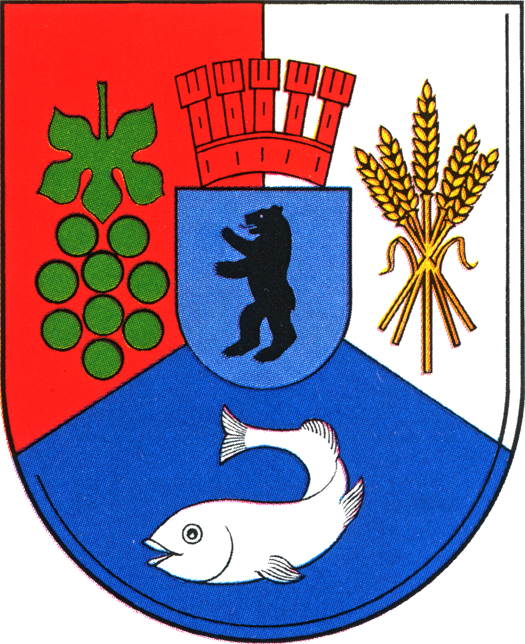 Coat of arms of Müggelheim.